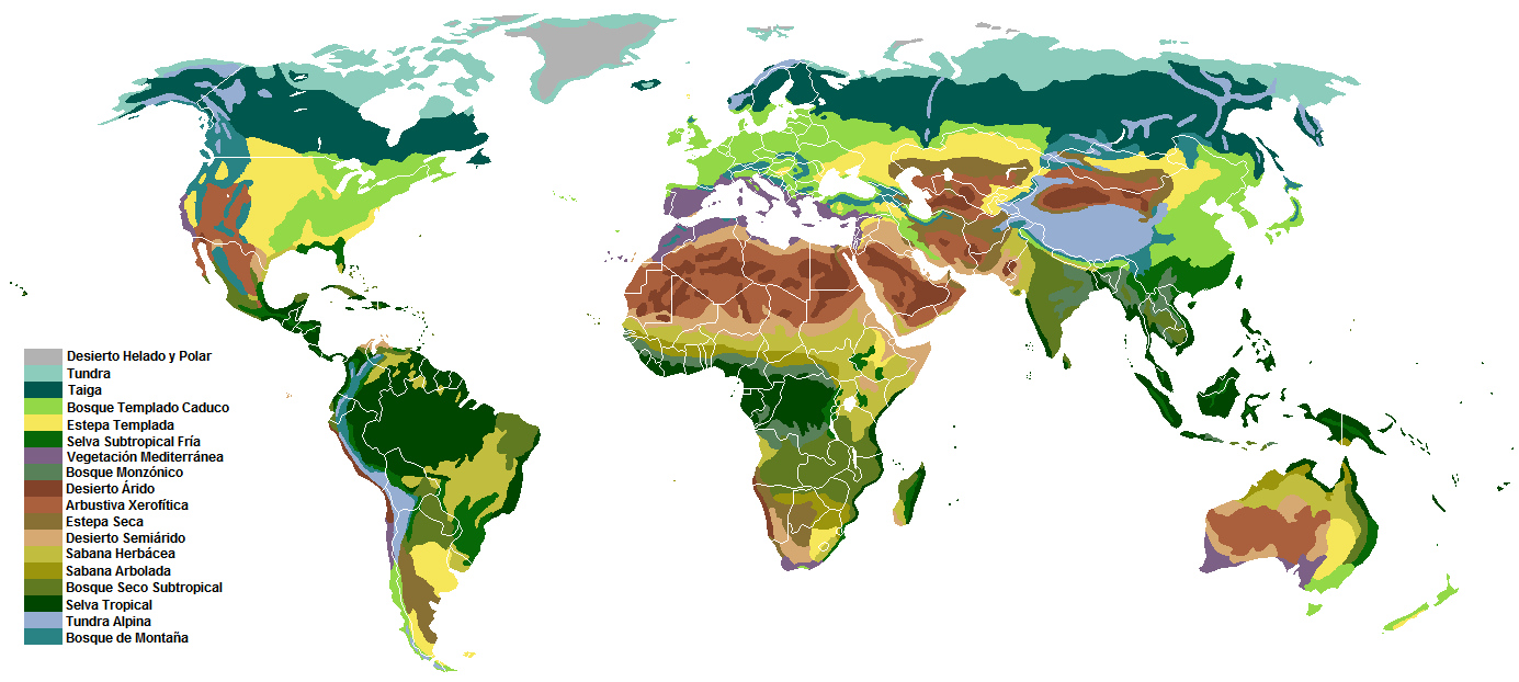 Vegetation Types Legend in Spanish